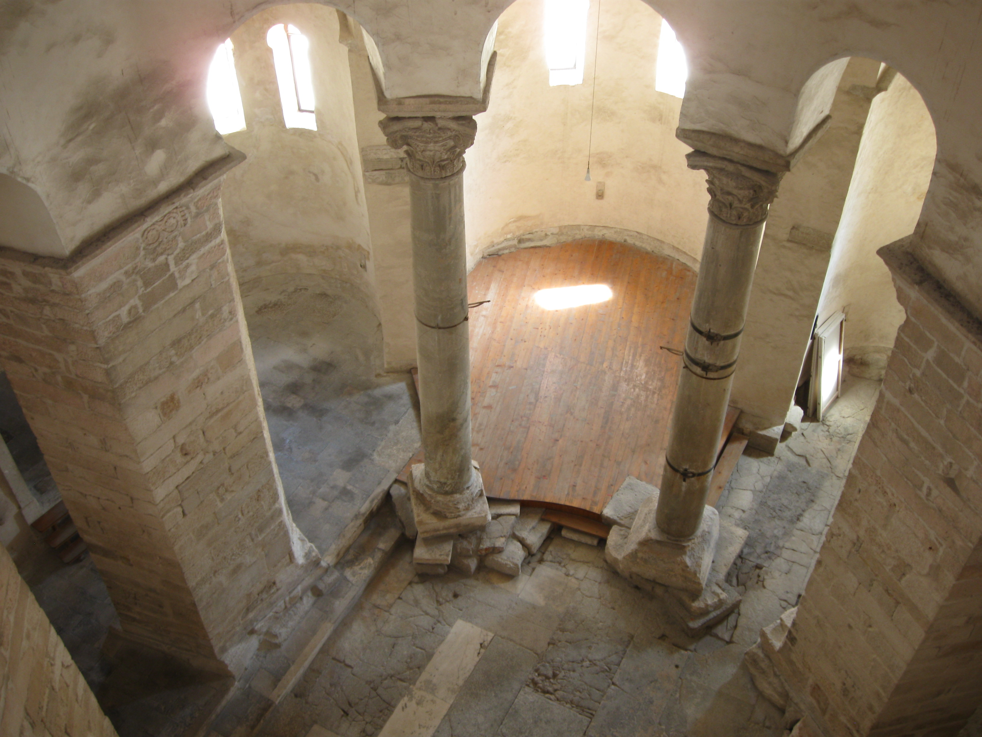 Church of St. Donatus in Zadar